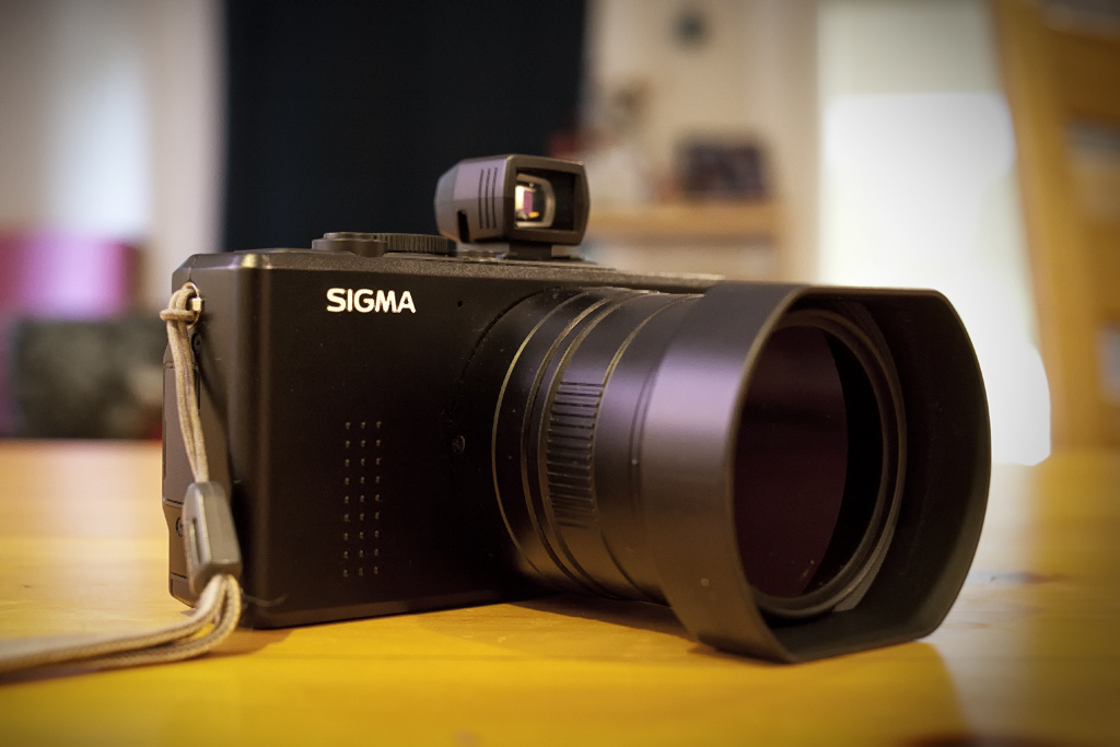 Sigma DP2s digital camera with Sigma VF-21 optical viewfinder and Sigma HA-21 lens hood adapter.